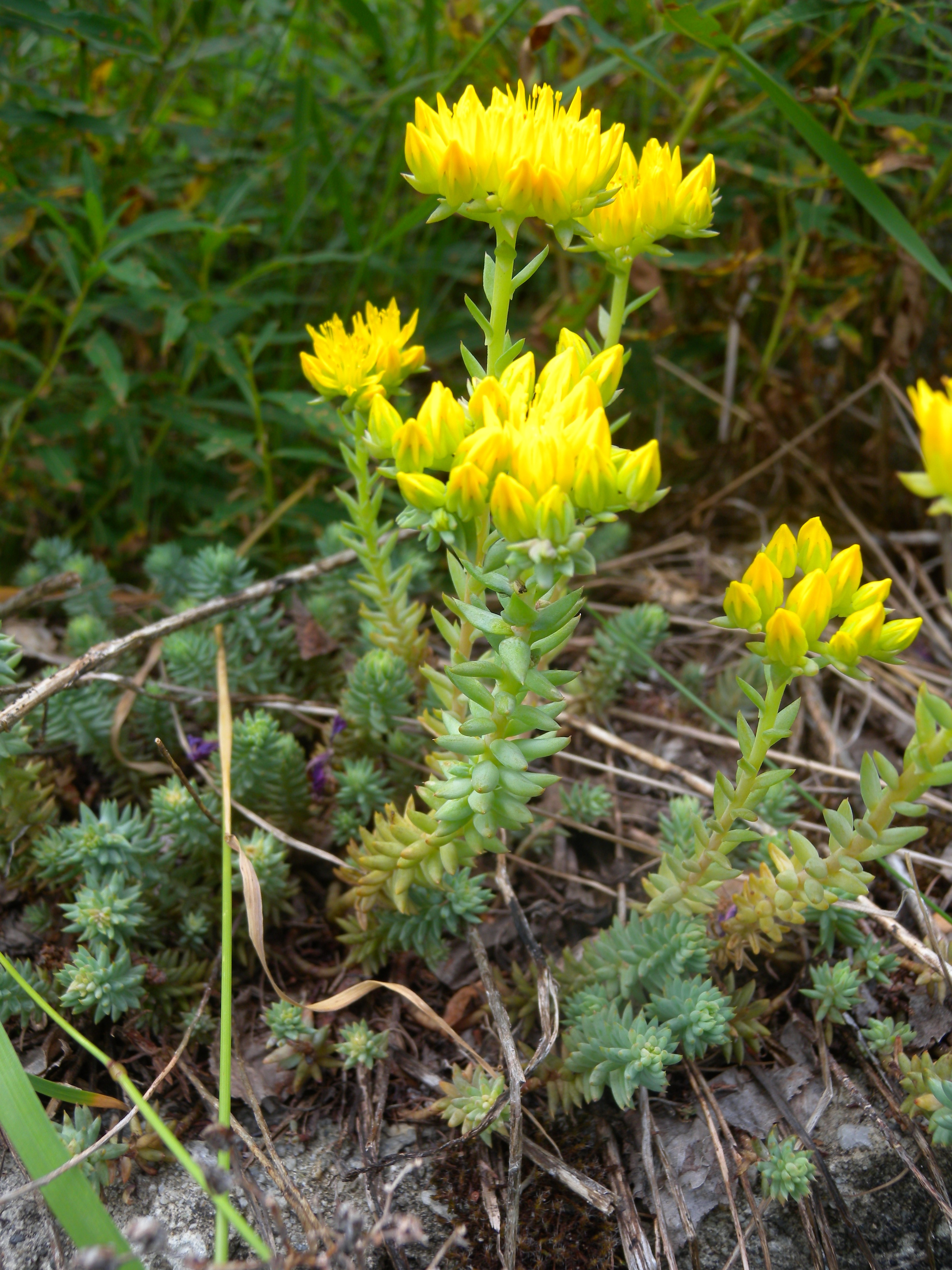 Sedum rupestre (Crassulaceae); Geschinen, Canton of Valais, Switzerland